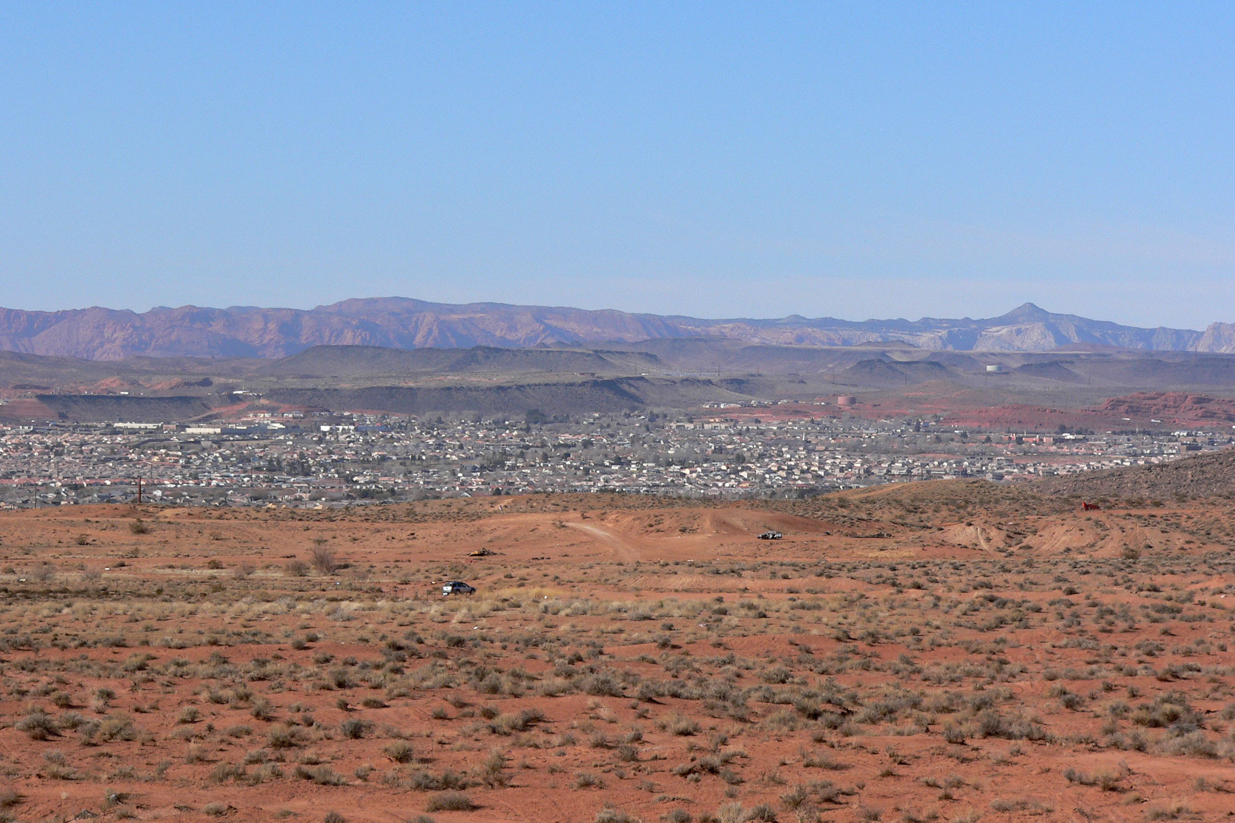 View of St. George, Utah from the east, near Punchbowl Dome